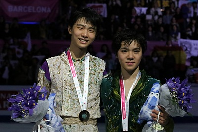 Yuzuru Hanyu and Shoma Uno at the 2015 Grand Prix of Figure Skating Final.